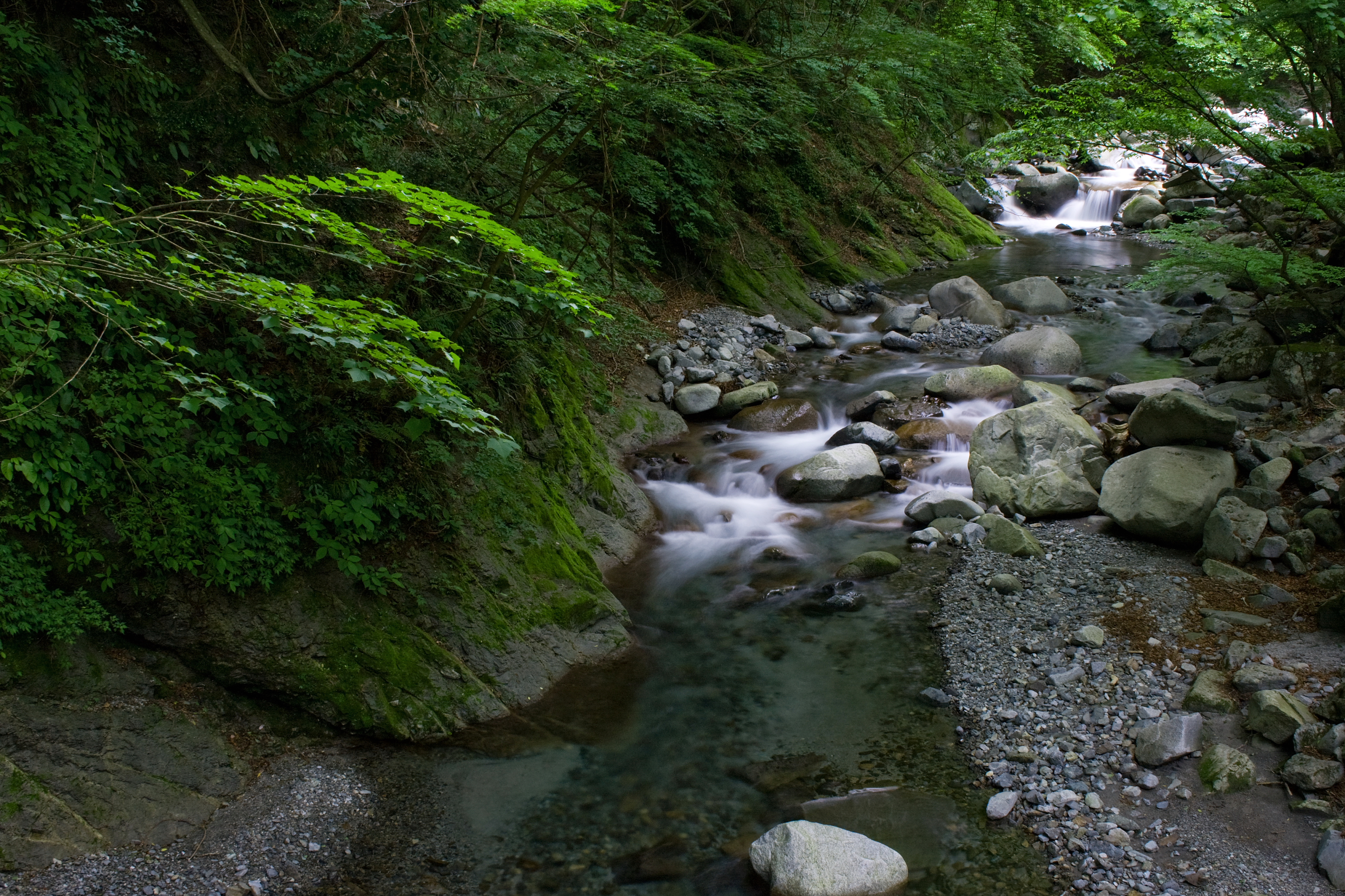 Nakagawa River (中川川 Nakagawa-gawa) at Mts.Tanzawa, Kanagawa, Japan.